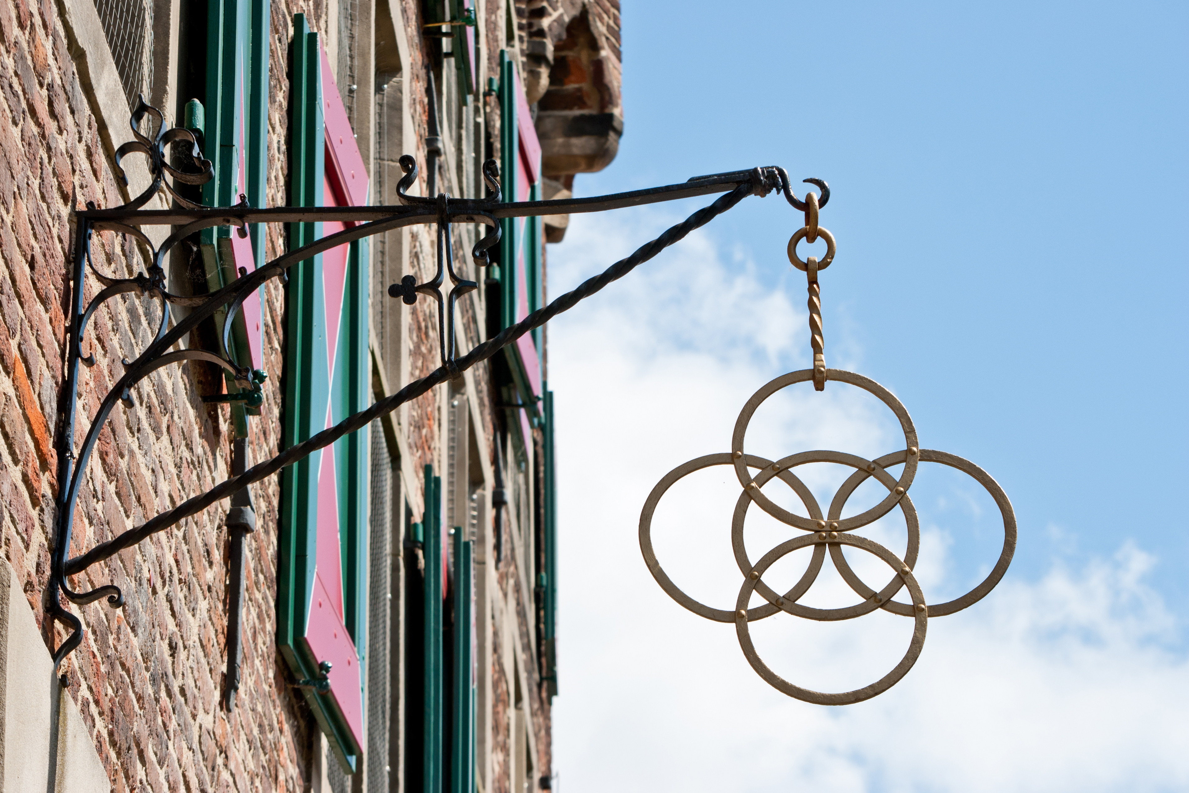 Goch (North Rhine-Westphalia, Germany) – Gothic patrician residental building Haus zu den Fünf Ringen – the five rings This image shows a heritage building in Germany, located in the North Rhine-Westphalian city Goch (no. 8). This photograph was taken with a Nikon D3000